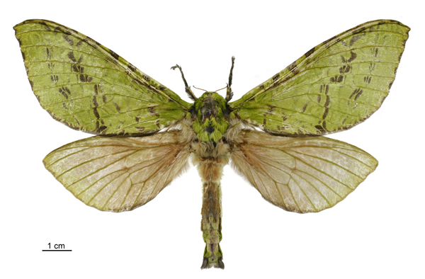 Female specimen of Aenetus virescens photographed by Birgit E. Rhode, Landcare Research.